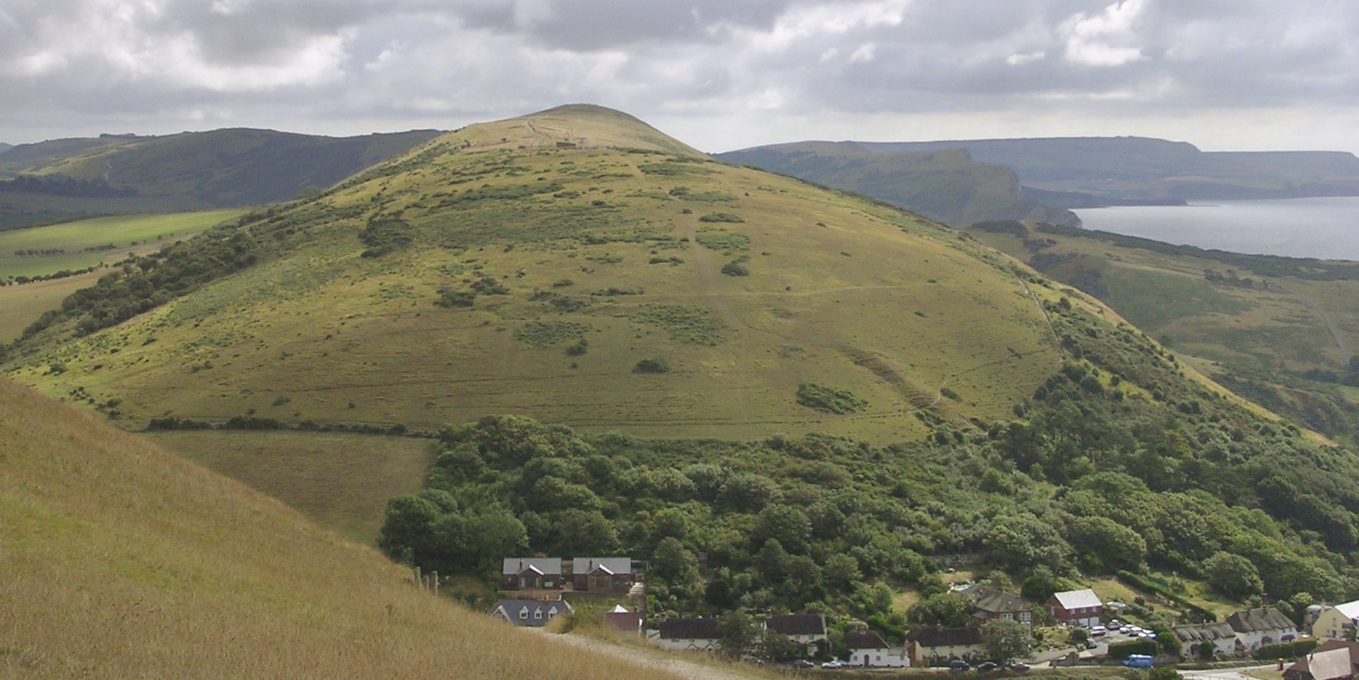 View of the western end of Bindon Hill from Hambury Tout